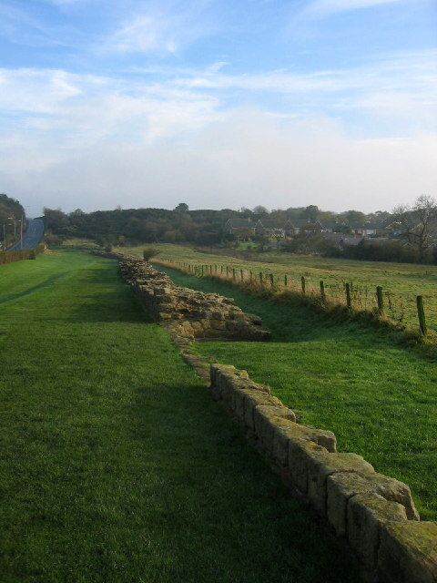 Hadrian's Wall, Heddon-on-the Wall. A remarkable survival after 2000 years of plundering the Wall for building in this area. The two ditches associated with the Wall can just be made out: The Wall Ditch in front (to the left) and the Vallum behind (to the right). Part of the foundations of a turret an be seen in the middle of the photograph. The view is to the east.